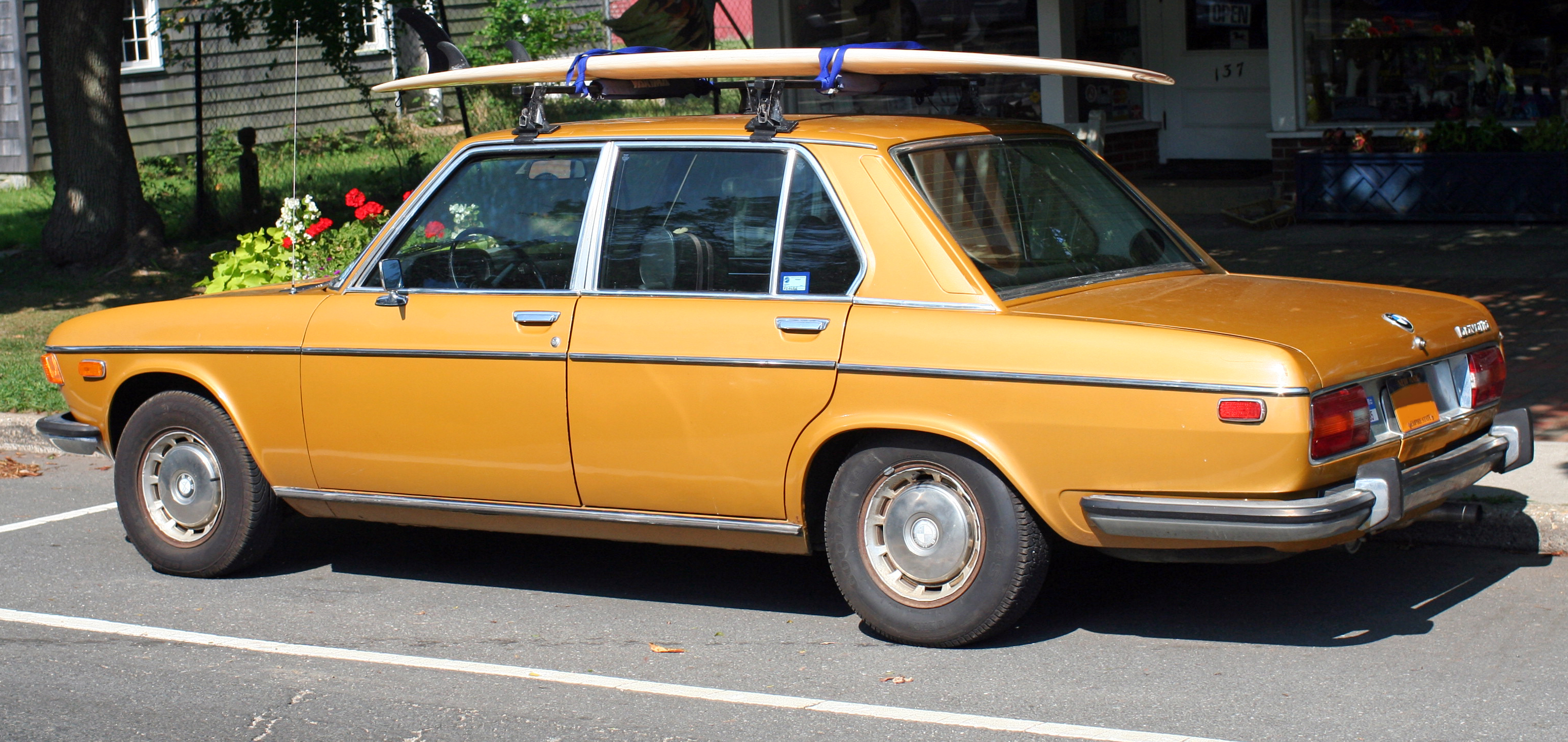 1973 BMW Bavaria, a North American version with the simpler equipment of the 2500 but the bigger 2.8 liter (3.0 from MY 1972) engine.